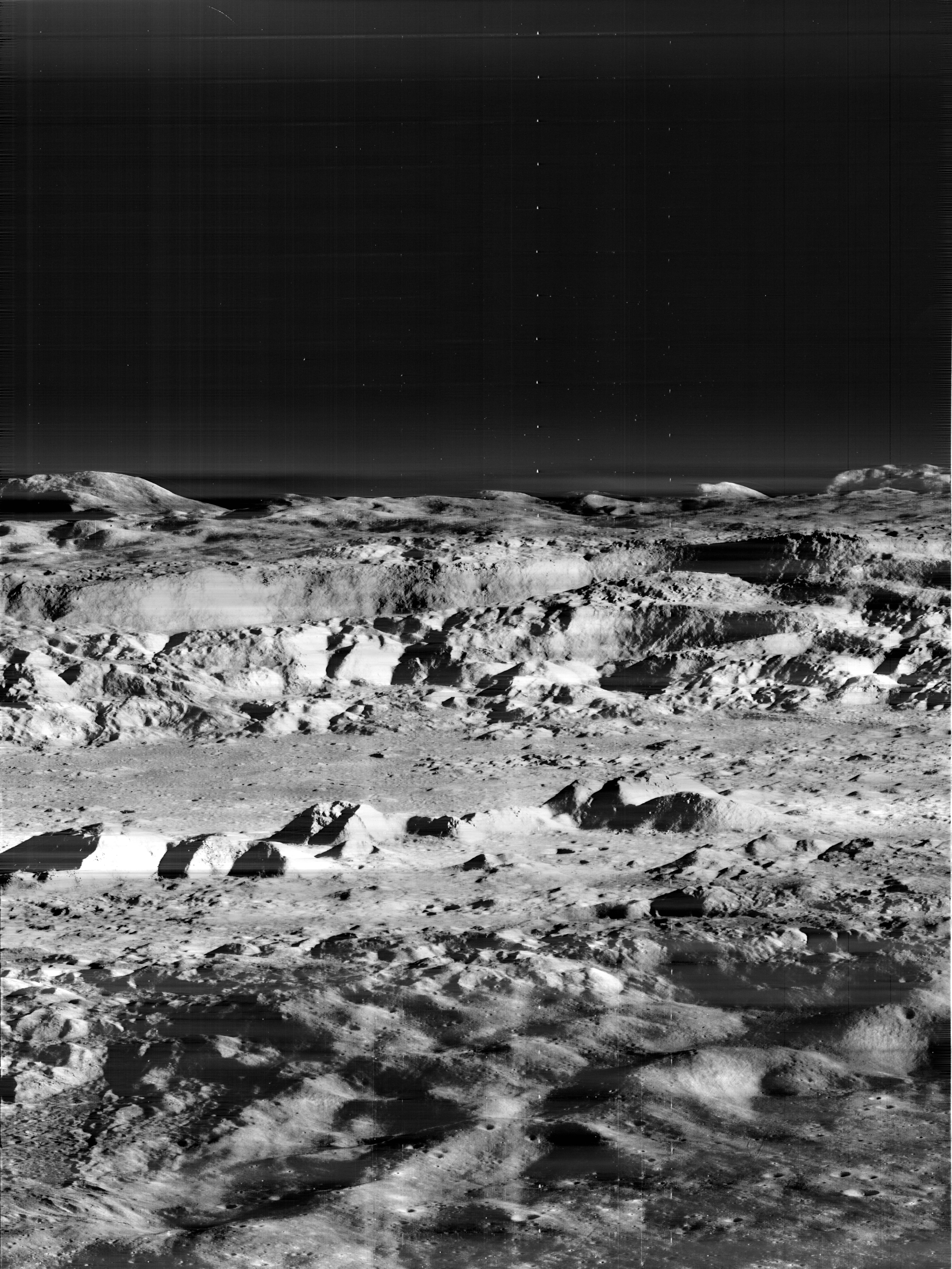 This is an oblique view of lunar crater Copernicus taken from Lunar Orbiter 2 in orbit about the Moon. At the time this image was published it was dubbed the "Picture of the Century". Here is the original caption from the NASA source page: "Lunar Orbiter 2 oblique northward view of the interior of the 100 km diameter Copernicus crater on the Moon. The central peaks are in the middle of the image, rising about 400 m above the crater floor, and stretching for about 15 km. The northern wall of the crater is in the background. This is the top frame of a set of 3 adjoining high resolution frames, which are available in image lo2_h162_123. (Lunar Orbiter 2, frame 162-H3)"